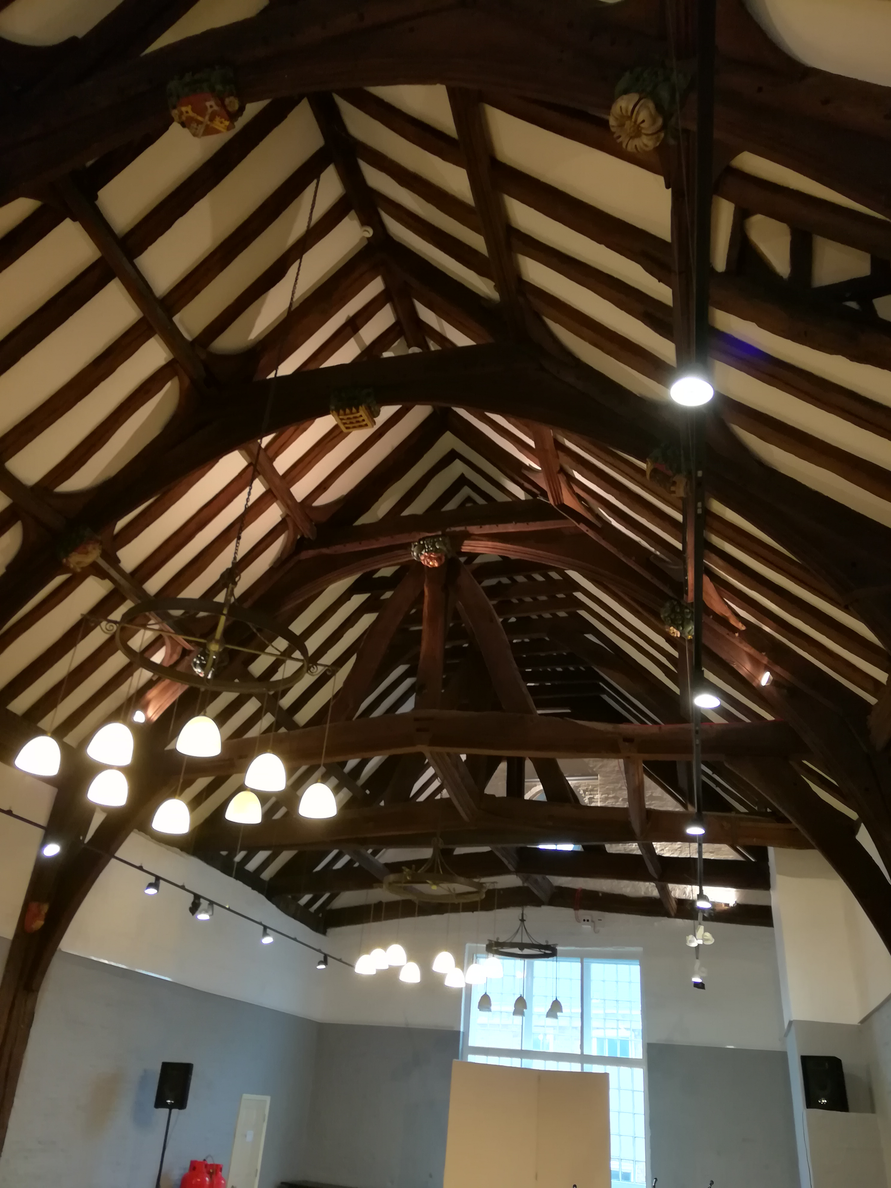 Interior of St Antony's Hall in York